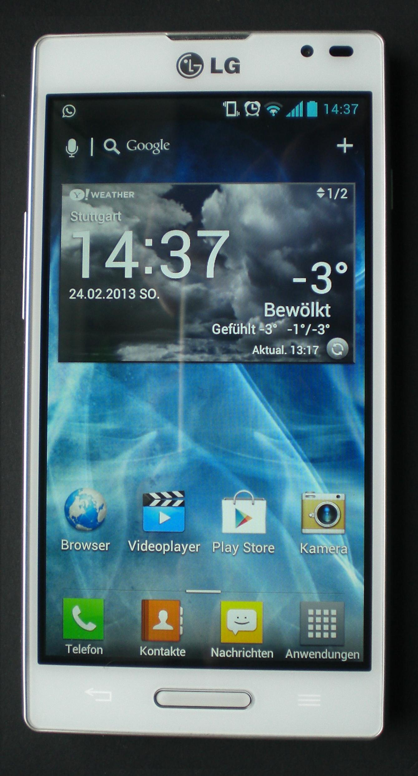 LG mobile phone "LG Optimus L9" configured in German.